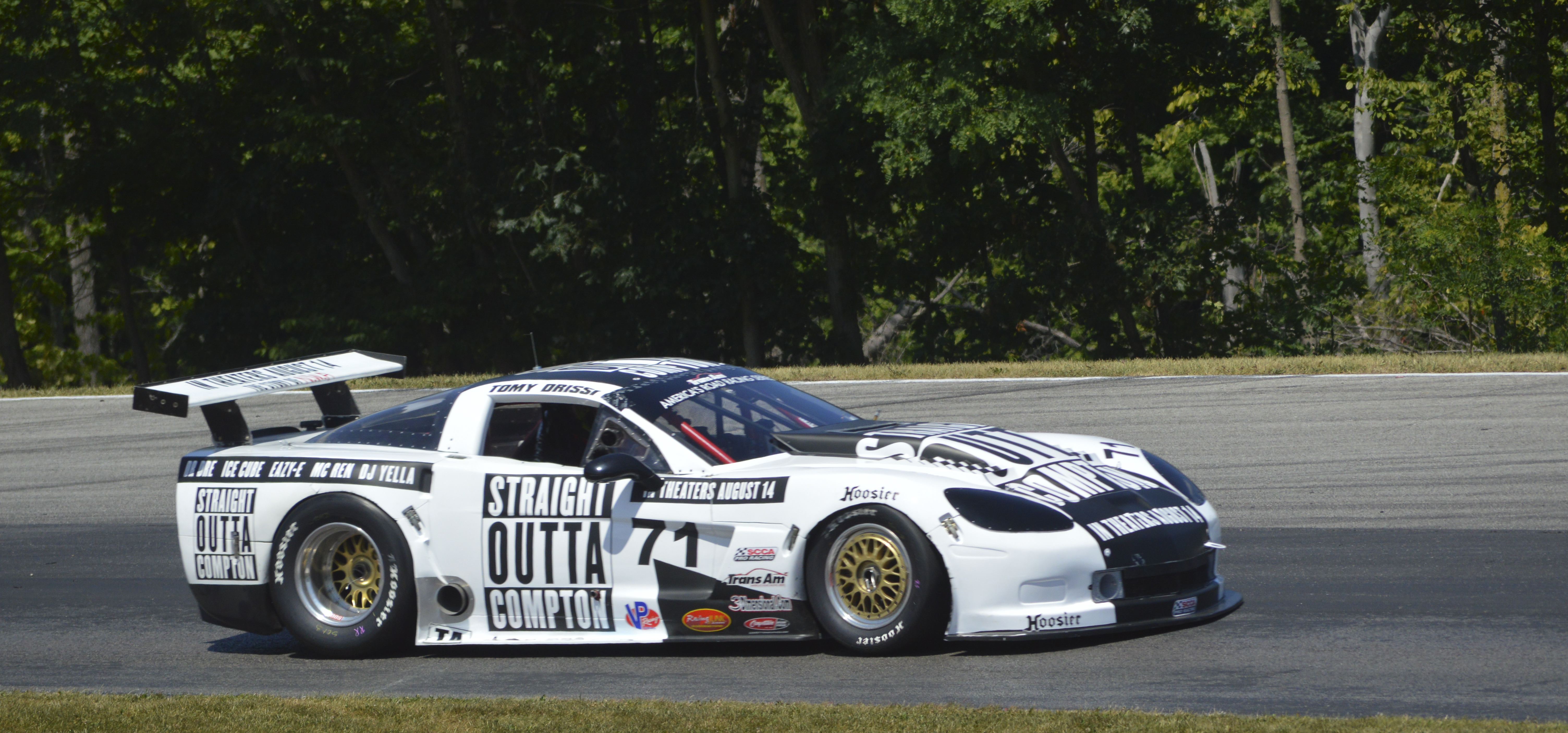 Tomy Drissi